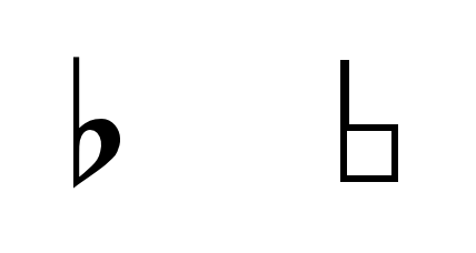 B molle and B durum